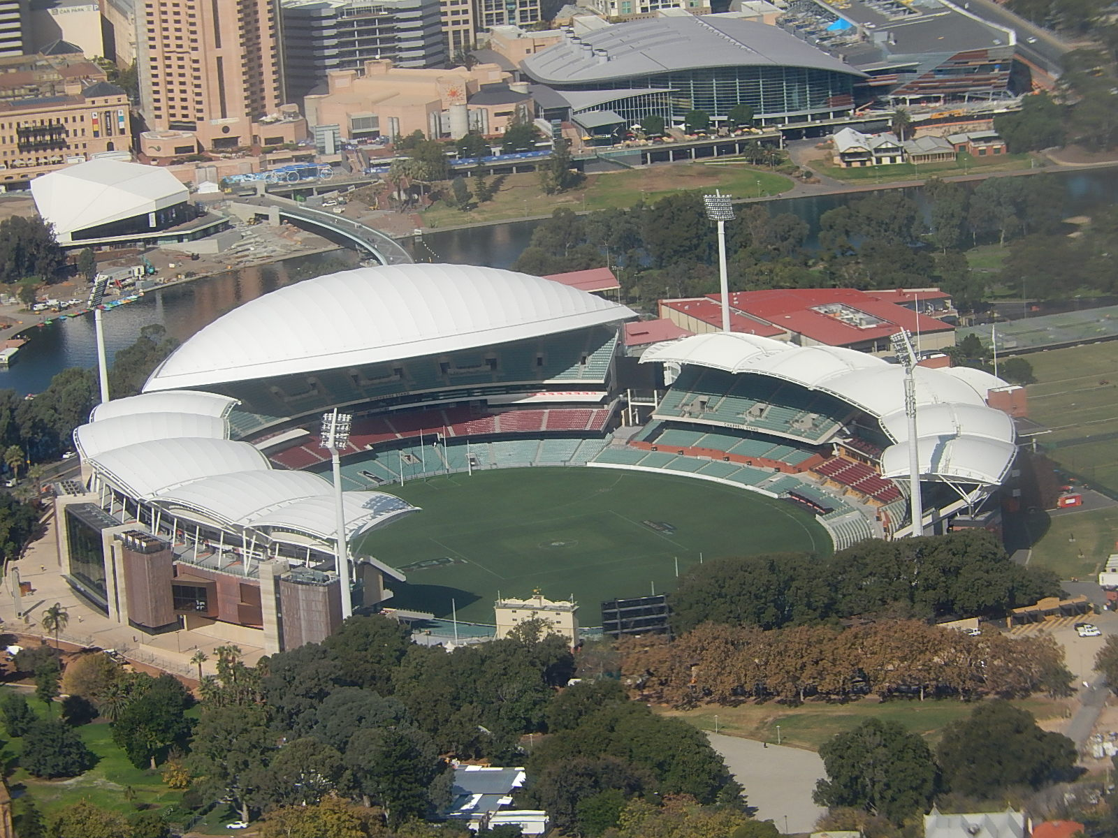 The Adelaide Oval stadium, Australia, seen in April 2014 after the completion of three new stands Original version of the photo